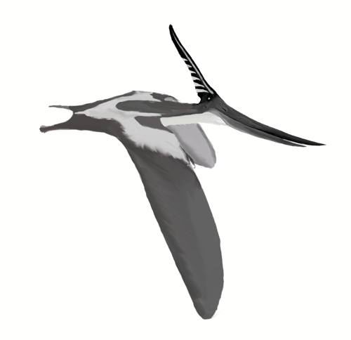 Restoration of a male Pteranodon longiceps in flight, based on specimen YPM 2437